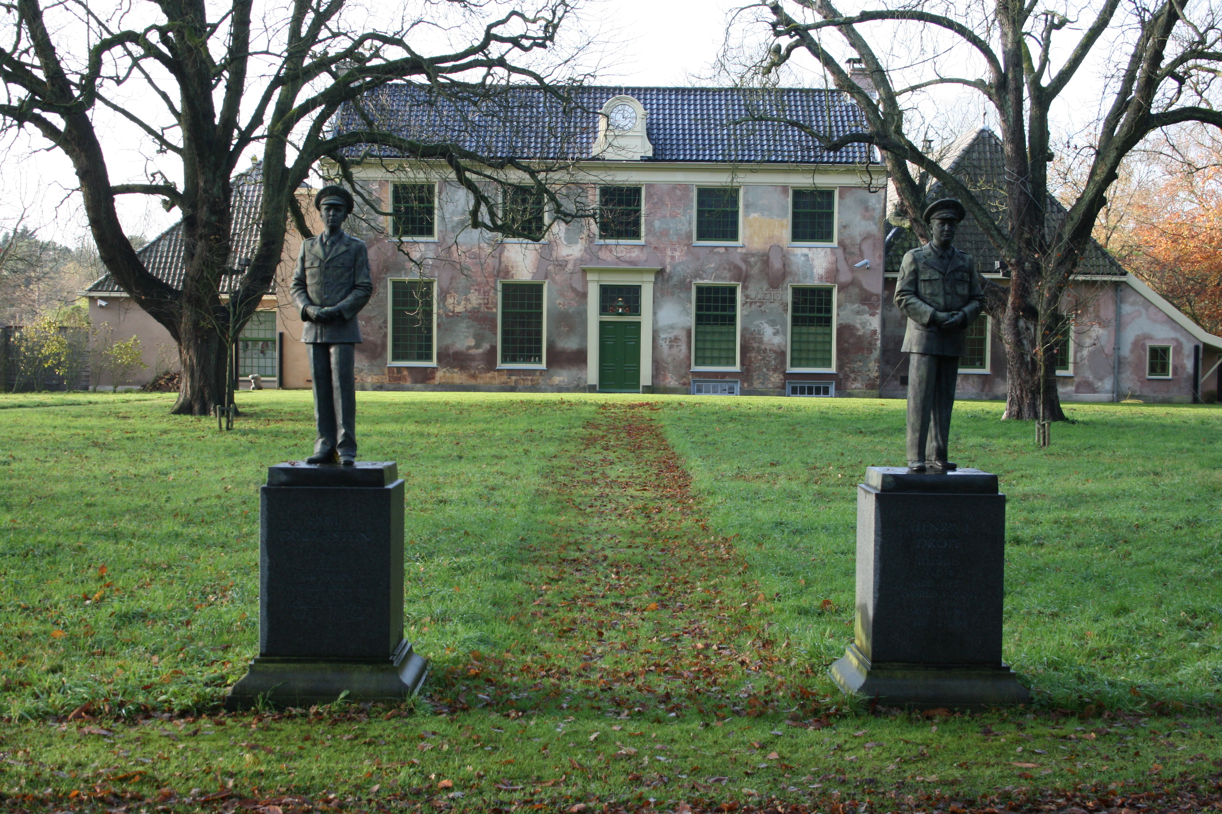 Bronze statues of Emil Dobbelstein and Henry J. Drope, by Keith Edmier, 1944 in front of the estate Groot Bentveld, Zaandvoort